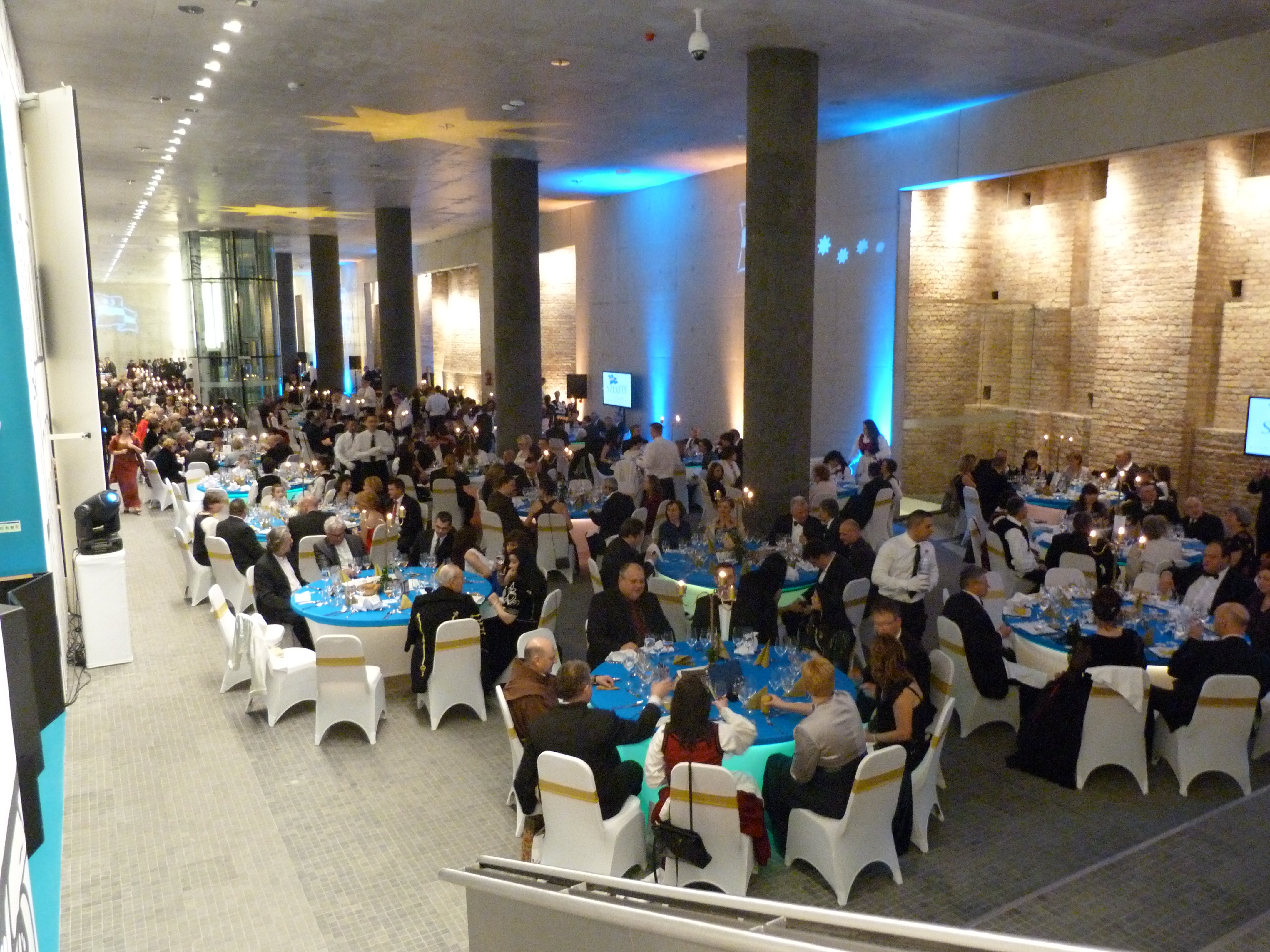 Live on the 14th of February, 2015. Budapest, Várkert Bazár. Gábor Áron - Háromszék Dance Ensemble. Director and choreographer: Orza Călin. II. Budapest Székely Ball.